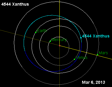 Orbit diagram of Xanthus asteroid with location as of March 6, 2013